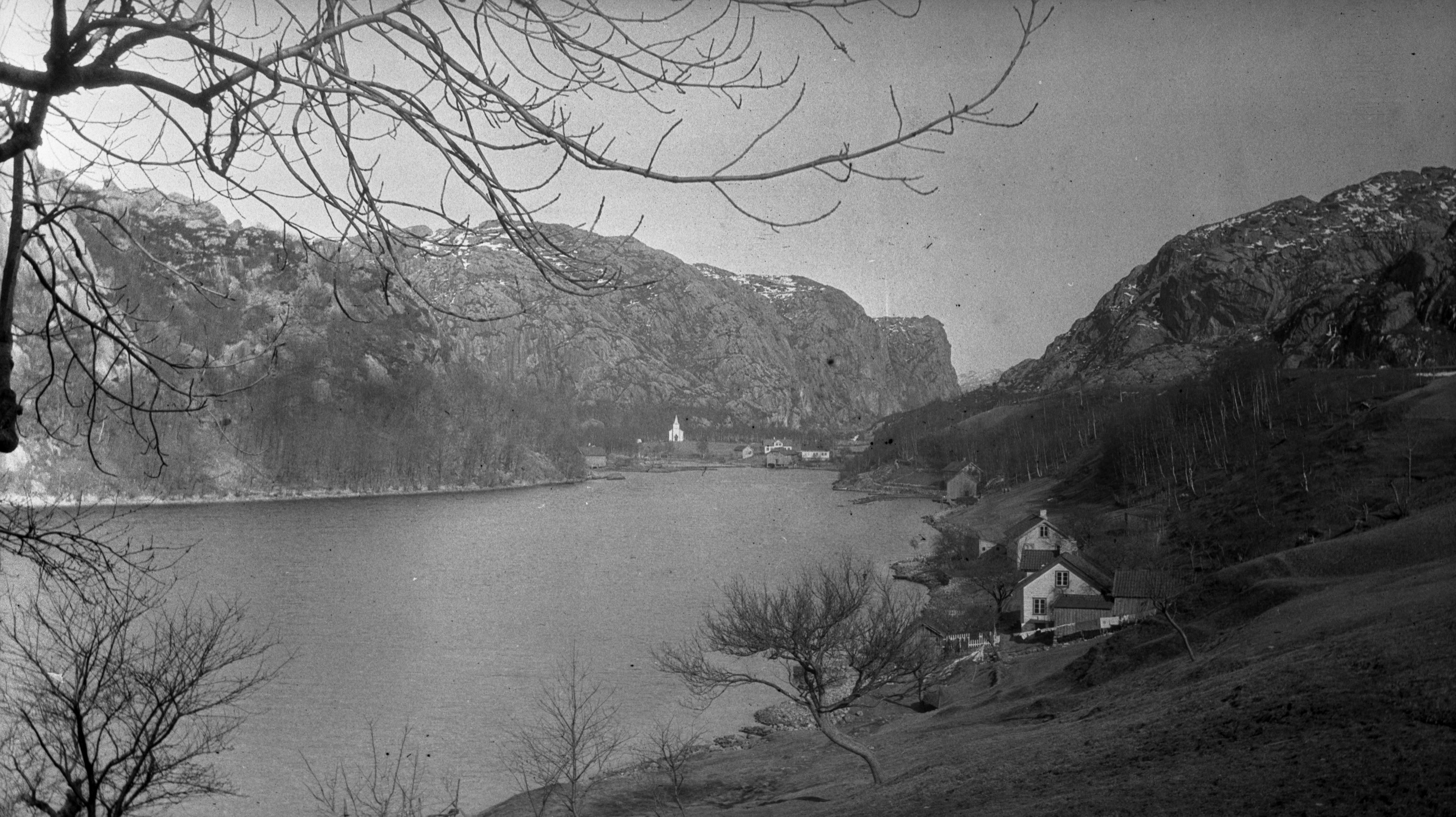 Identifier: SFFf-100585.271133 Photographer: Kristian Berge. Medium: Cellulose nitrate negative. Extent: 7 x 12 cm. Original caption (from Berge's negative album): 1916, Log Aaensire.